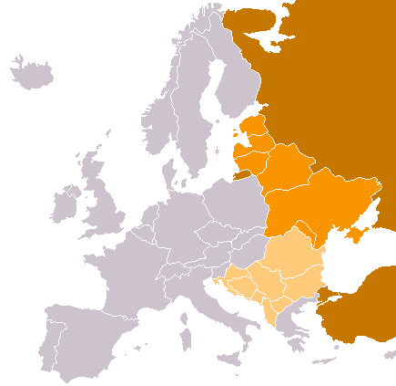 Eastern Europe according to CIA World Factbook, including Southeastern Europe